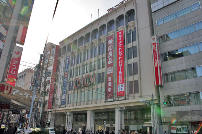 Marui Nakano Head Store (Nakano Ward, Tokyo Metropolitan Area, Japan)